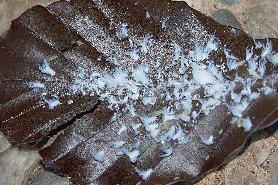 European beech leaf (cultivar purpurea) infested with woolly beech aphids.